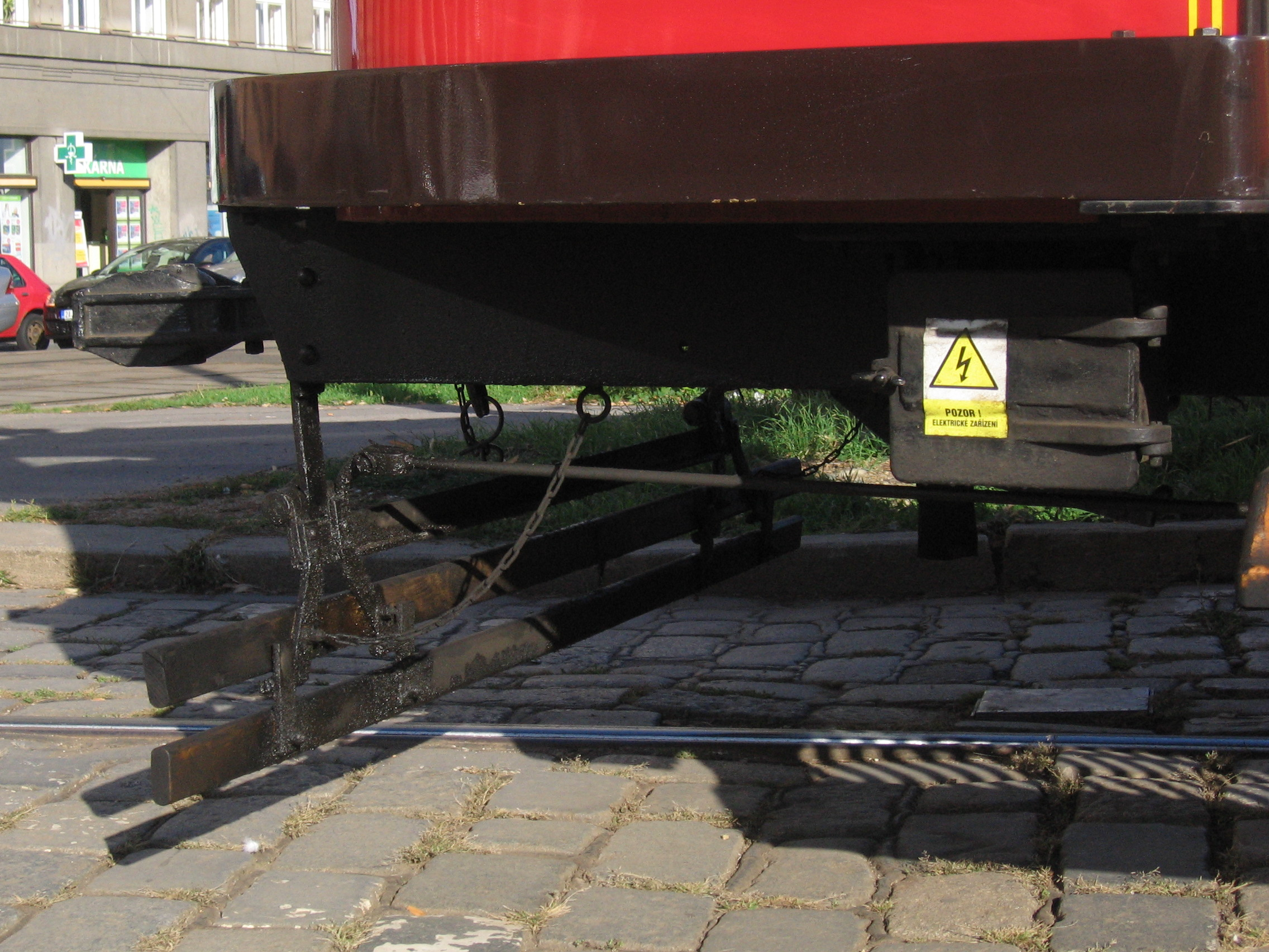 Men catcher or protection against overriding type Svoboda-Jirgl-Charvát on Prague trams (car No. 349) - the grid in front under the frame is in the case of collision turned back and pulls the wire, which release the massive plough which falls on the track.